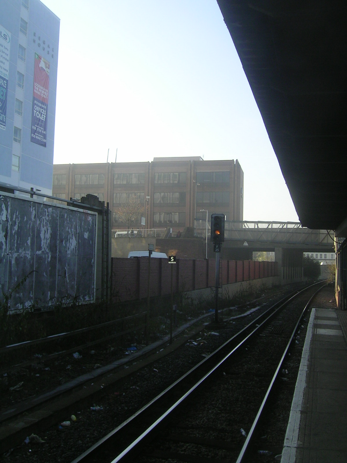 Twickenham railway station in West London, taken by me in November 2005.